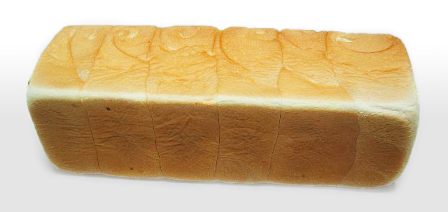 Shokupan is a pullman loaf in Japan.